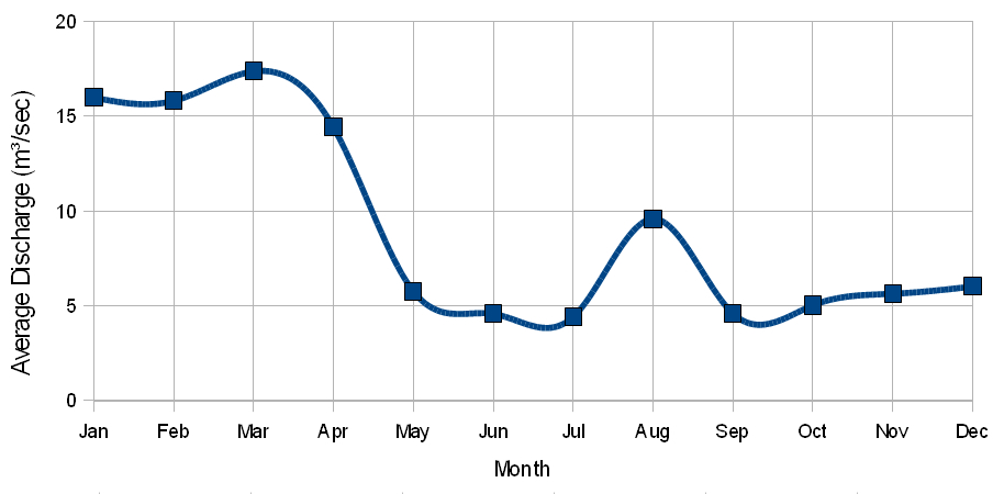 Average monthly discharge of Yarkon River, Israel during 1969 and 1975.